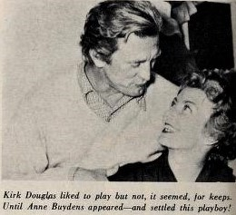 Kirk Douglas and Anne Buydens, 1954